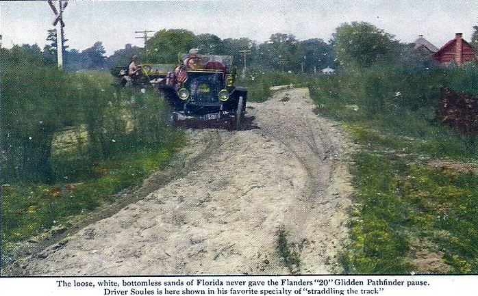 Photo of a Flanders 20 auto serving as the pathfinder car for laying out the Glidden Tour 1911 route from New York to Jacksonville, Florida. The photo shows the stretch of the path in Florida.